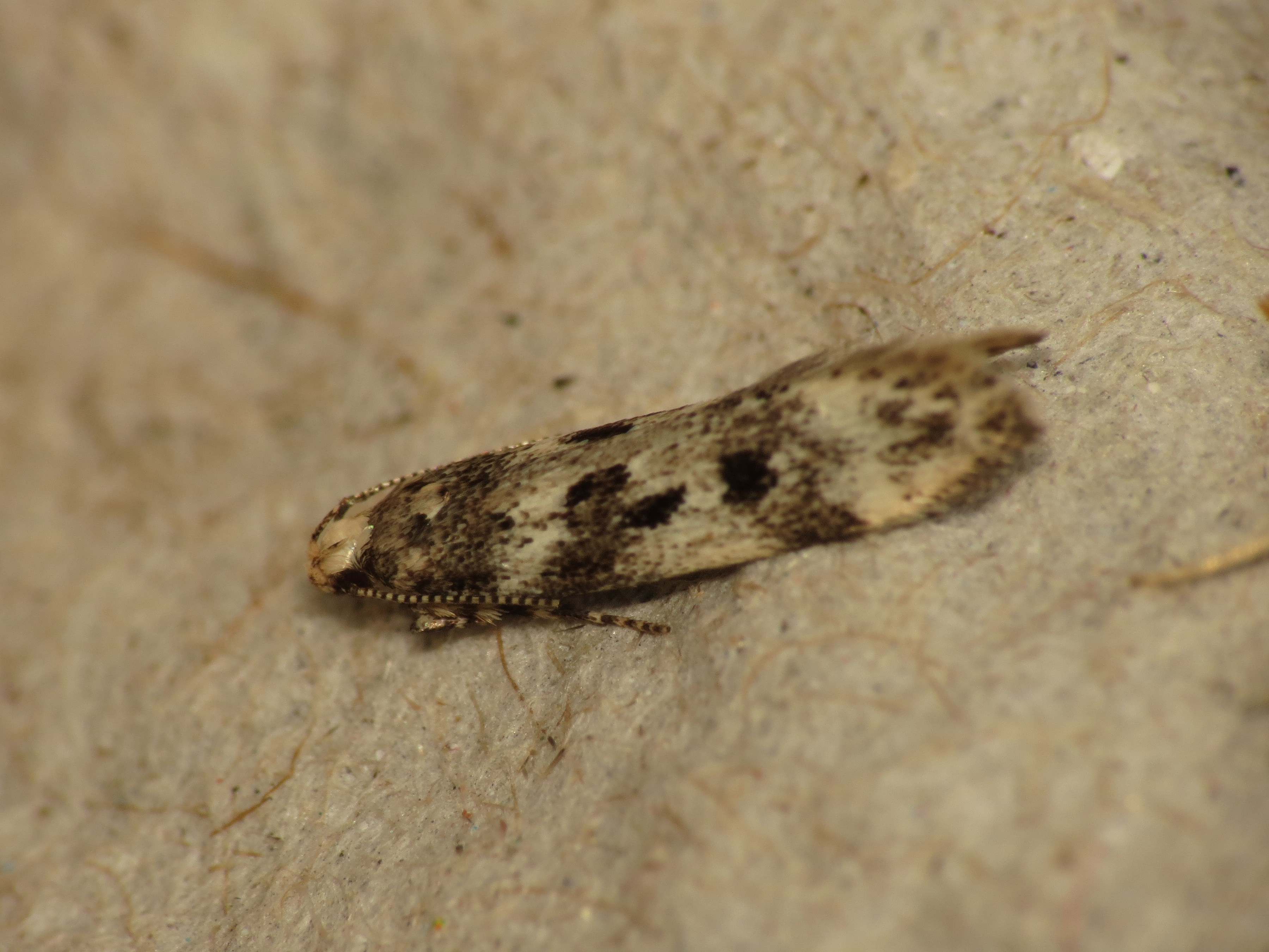 Chionodes electella, Husum, Copenhagen, Denmark